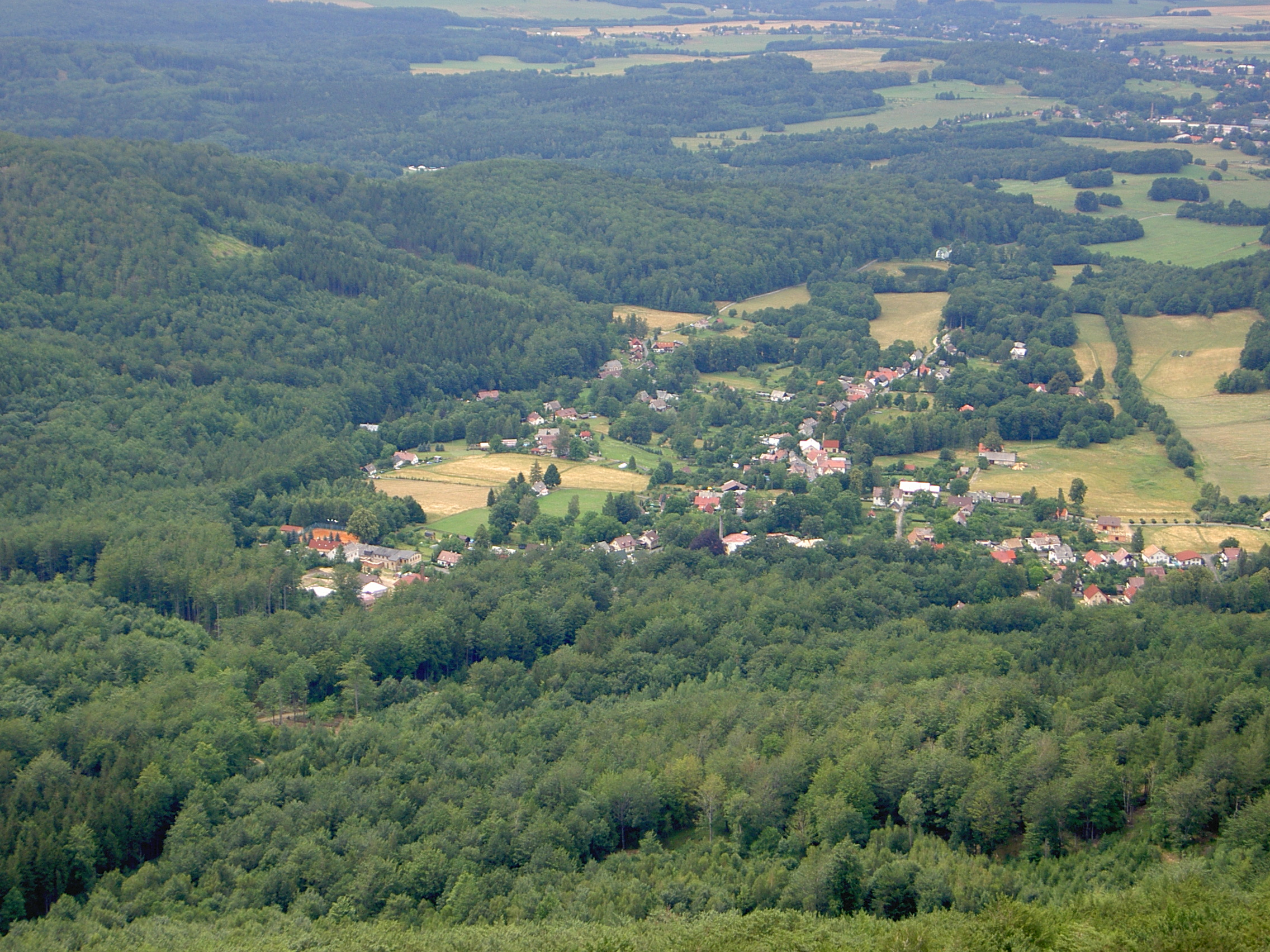 Ferdinandov, part of Hejnice, view from a top of Ořešník